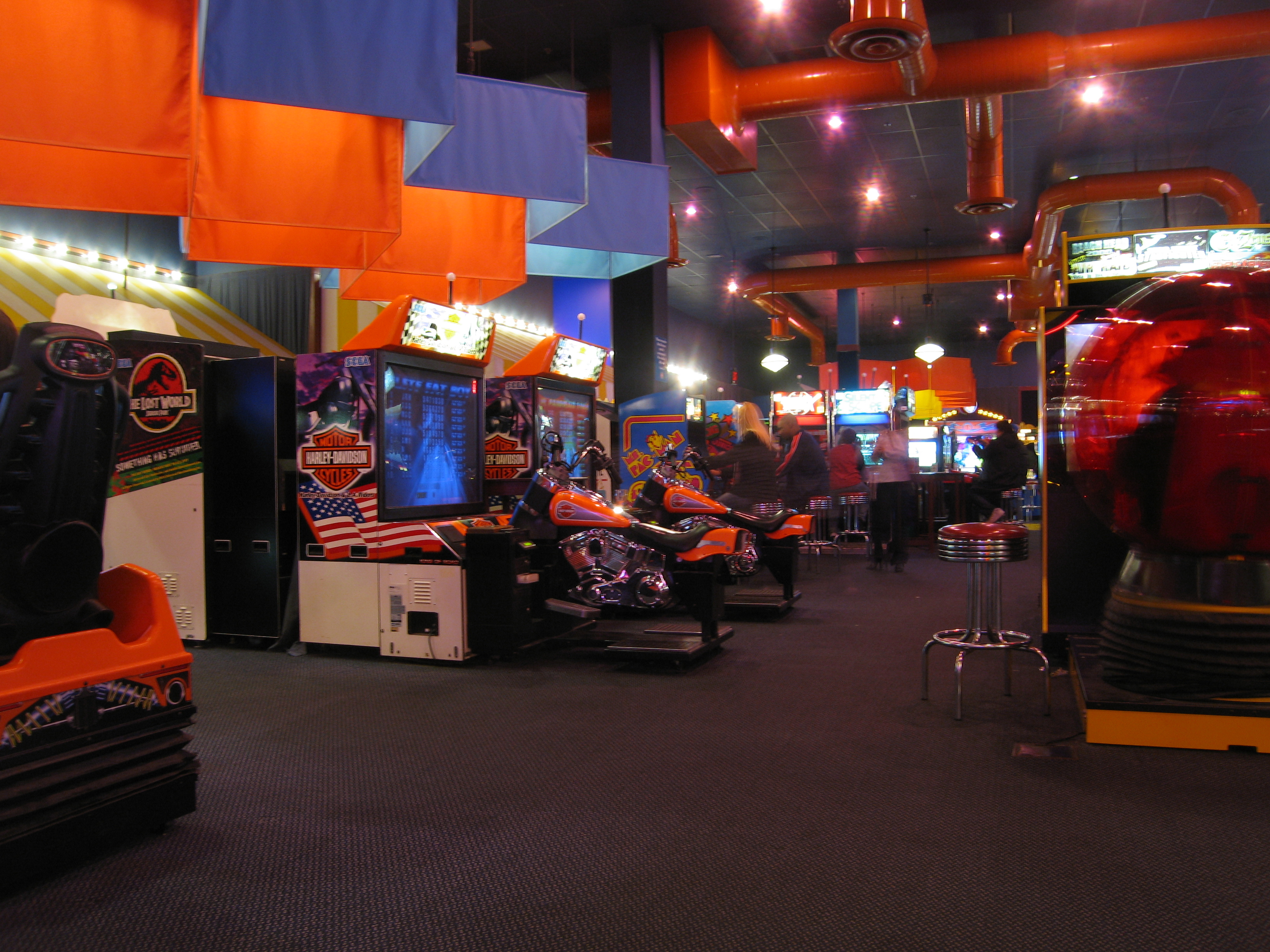 A long exposure photograph (2.5 seconds) of the video arcadeen at the Dave & Buster's in Hilliard, Ohioen.